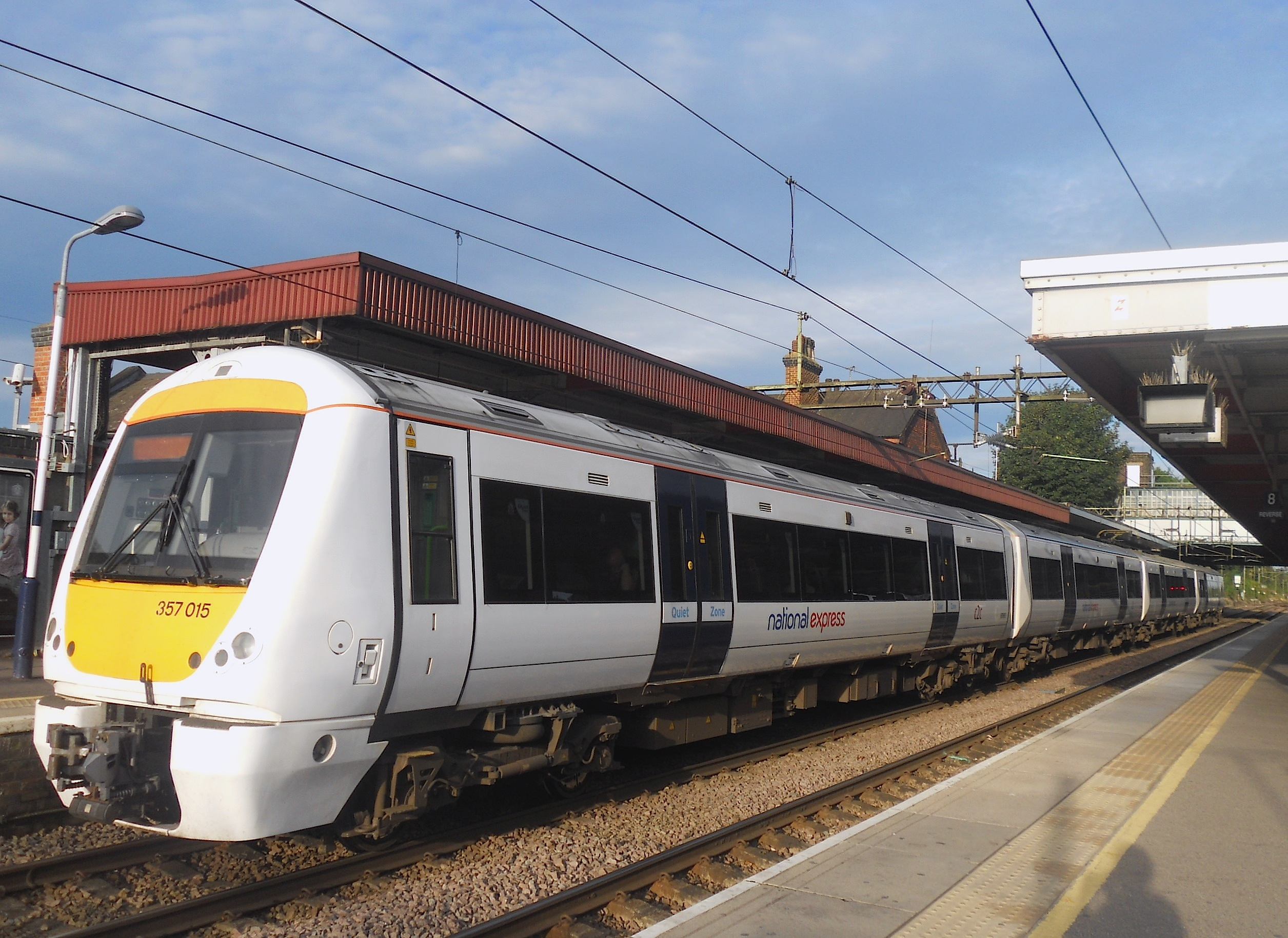 c2c Class 357/0 No. 357015 at Upminster